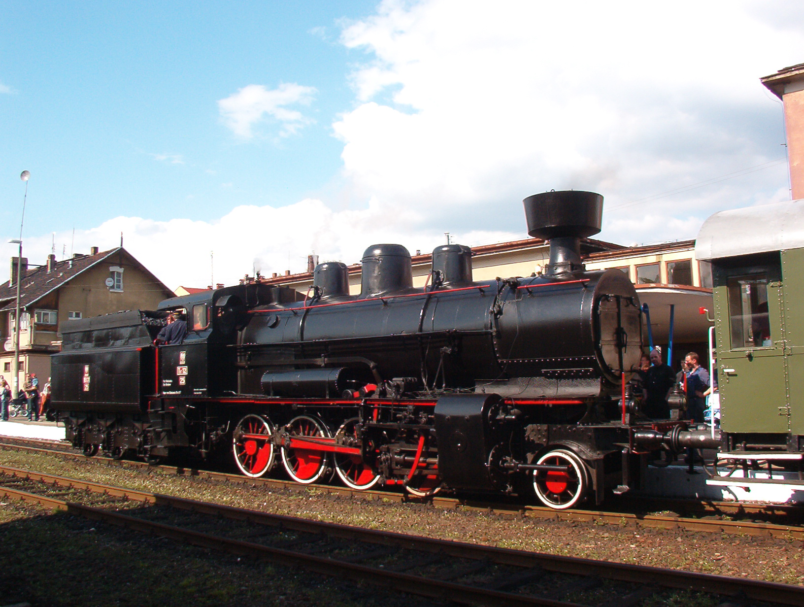 Locomotive PKP Tr12-25